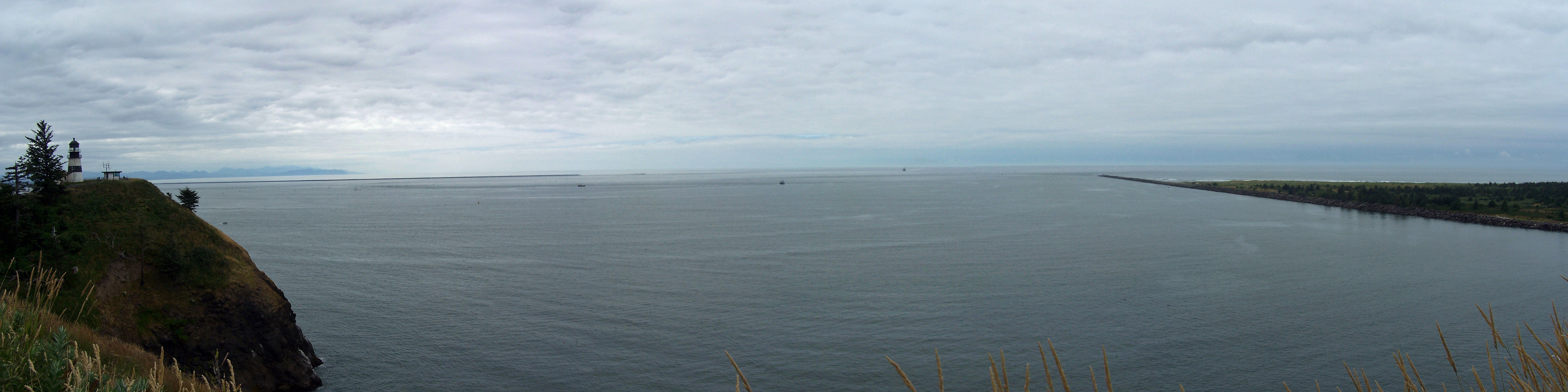 A panorama of the mouth of the Columbia River taken from near the Cape Disappointment Lighthouse in Cape Disappointment State Park.